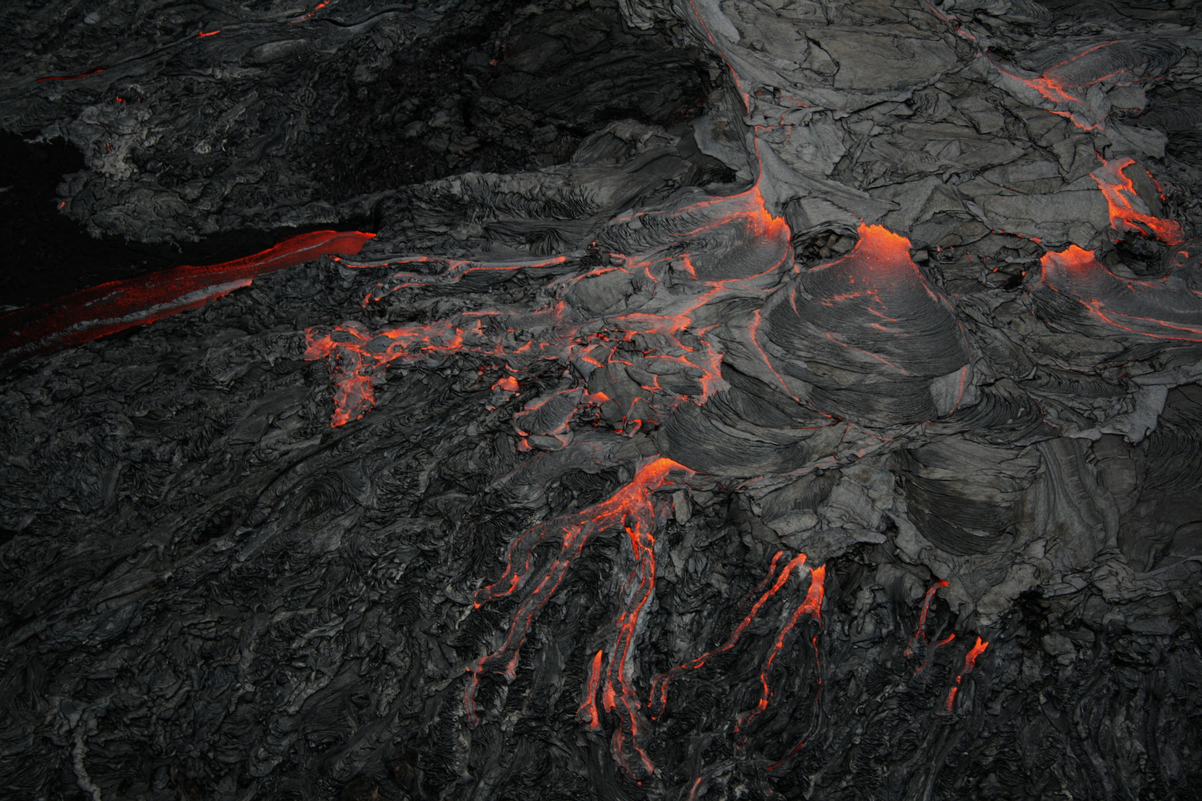 Lava flow at The Big Island of Hawaii. The lava flow is due to July 21 fissure eruption. The picture was taken from a helicopter.